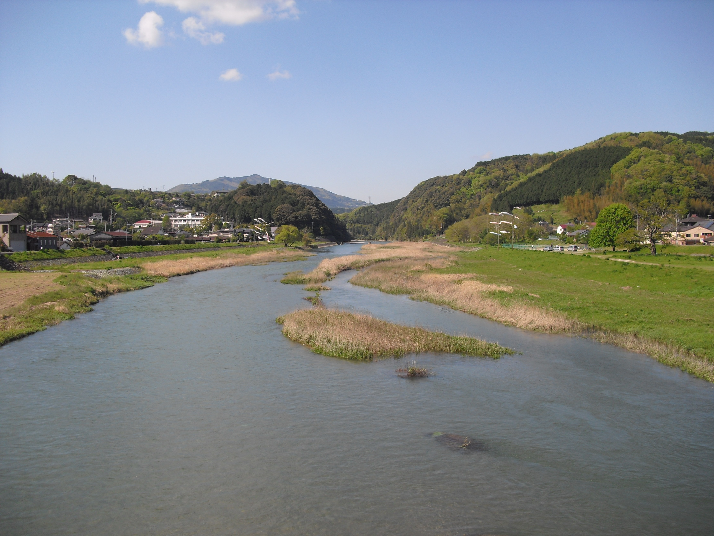 Odagawa river